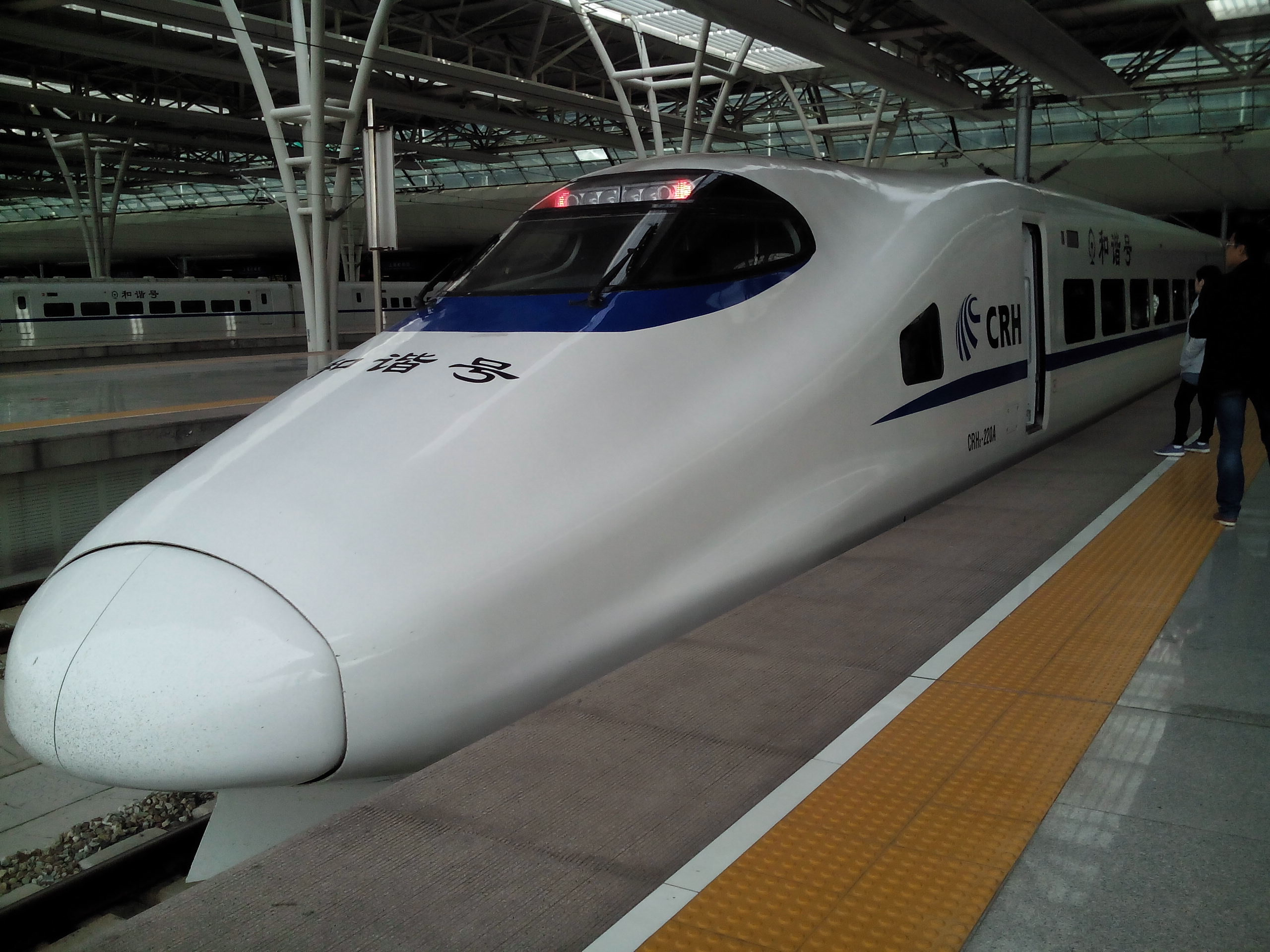 201405 D93 at Shanghai Hongqiao Station